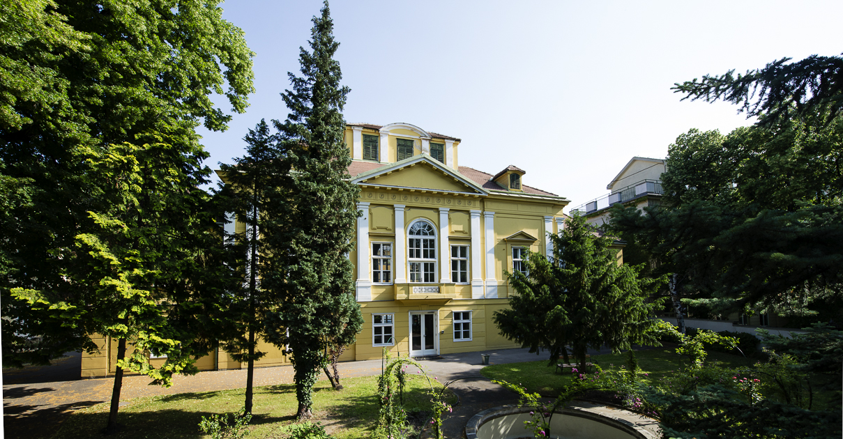 Mainbuilding of the LBS